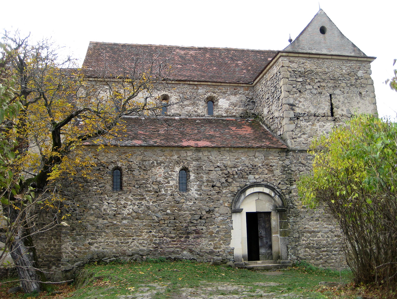 Fortified church of Cisnădioara (Michelsberg), Transylvania